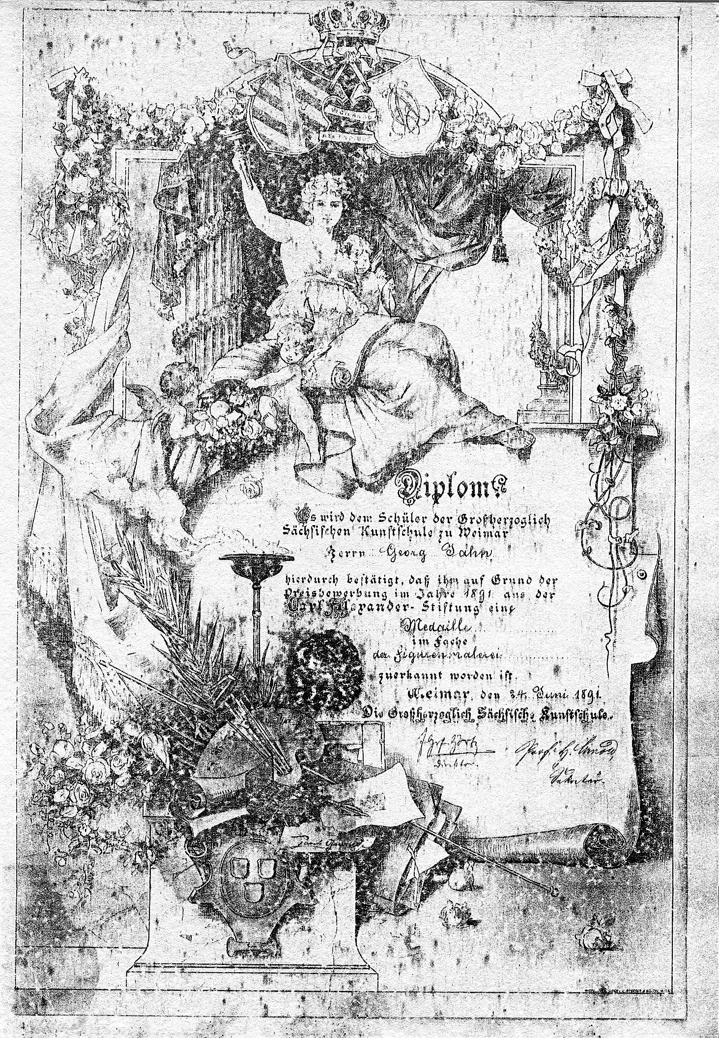 Diploma in the compartment "Figurenmalerei"